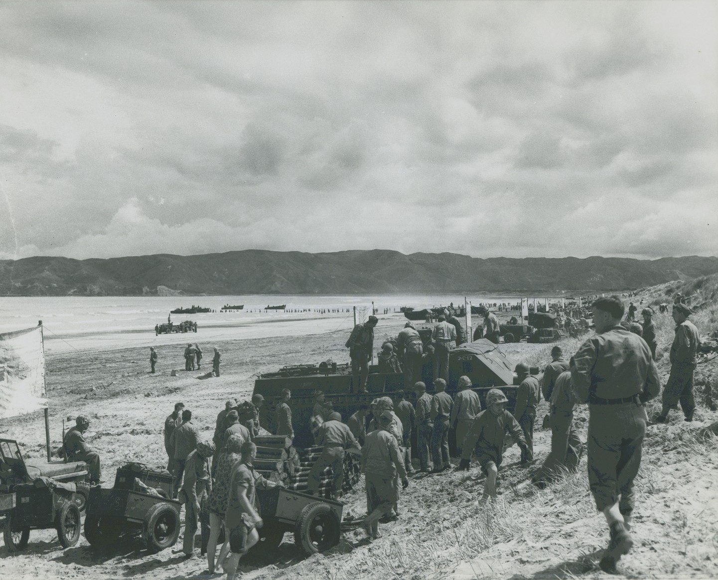 "A shore party, consisting of the first wave of 8th Marines to make a landing, secures the beach at Hawke's Bay, New Zealand, during the recent maneuvers held there." From the Julian C. Smith Collection (COLL/202), Marine Corps Archives & Special Collections OFFICIAL USMC PHOTOGRAPH